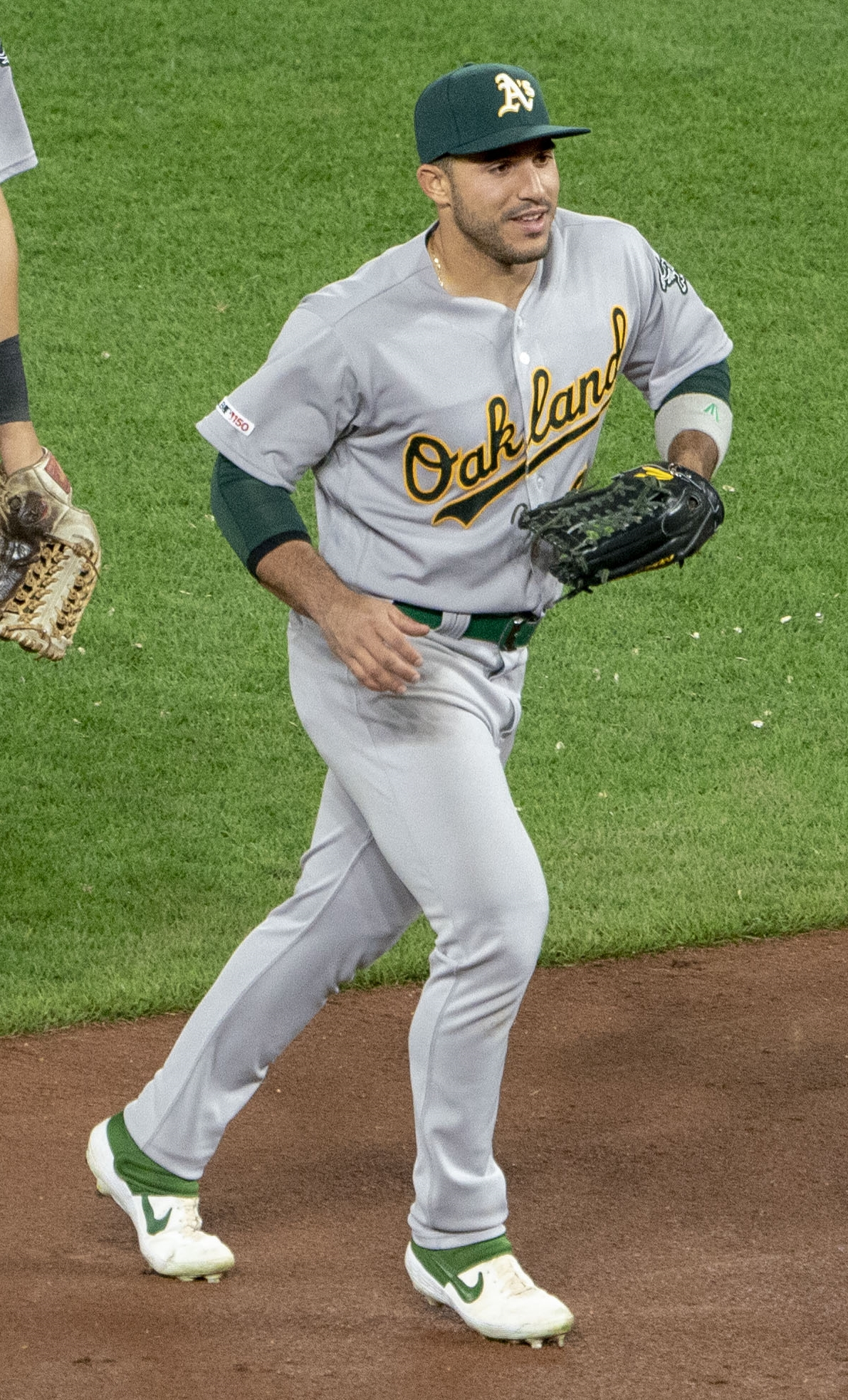 Ramon Laureano, Athletics at Orioles 4/10/19